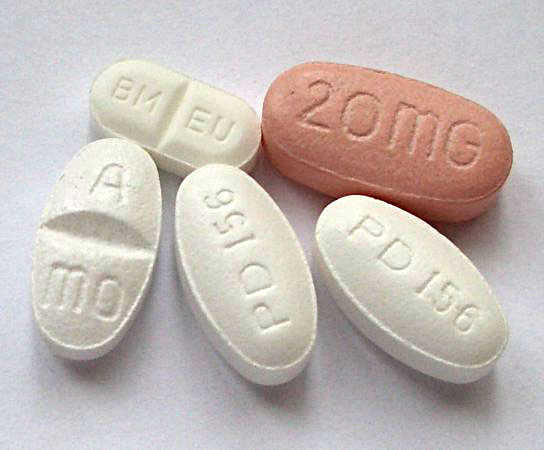 tablets